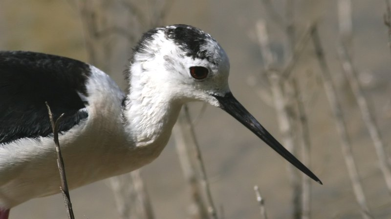 Black-Winged Stilt (Himantopus himantopus)